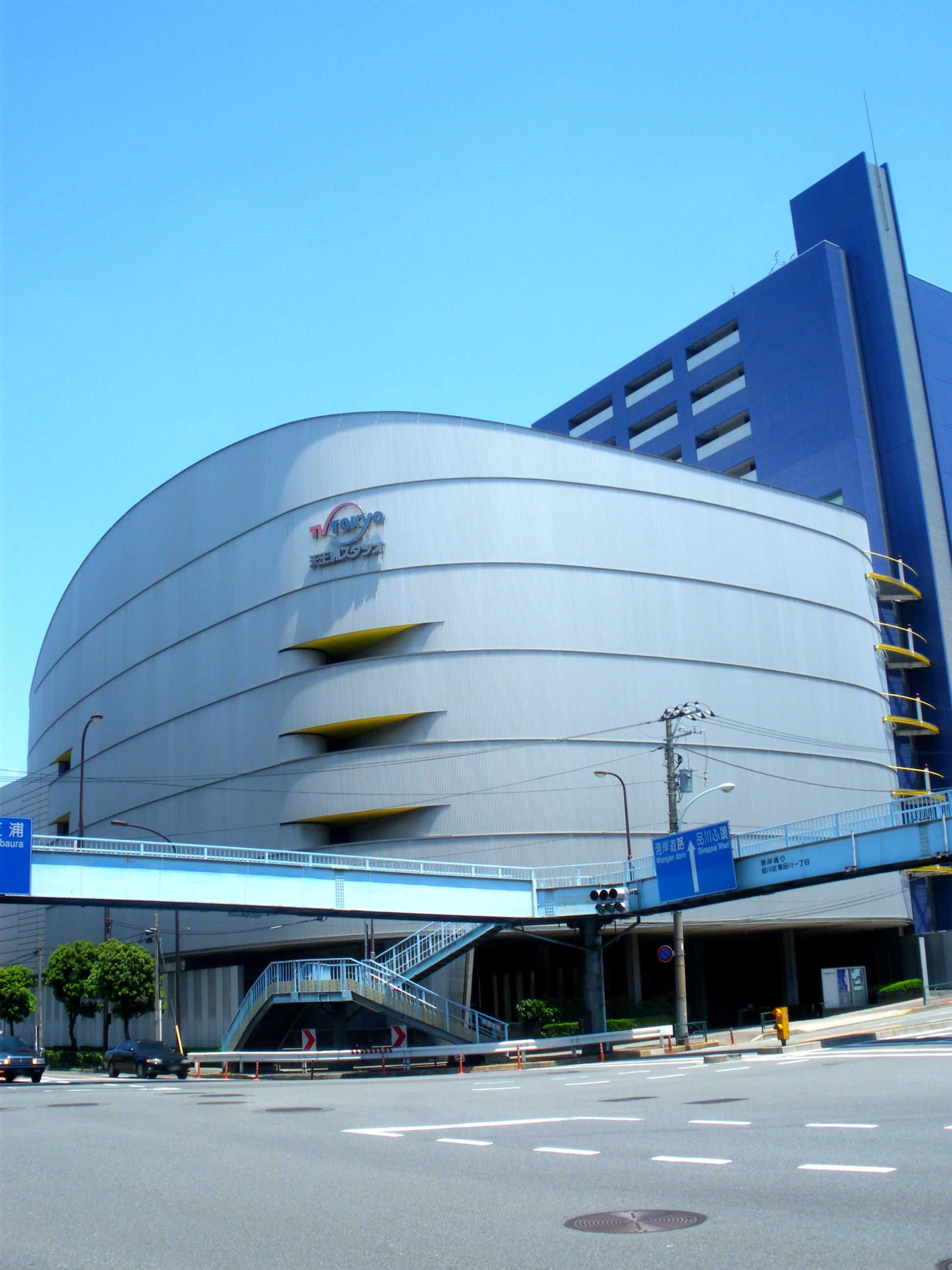 A photo of TV TOKYO Tennouzu Studio, Higashishinagawa, Shuinagawa-ku, Tokyo, Japan.